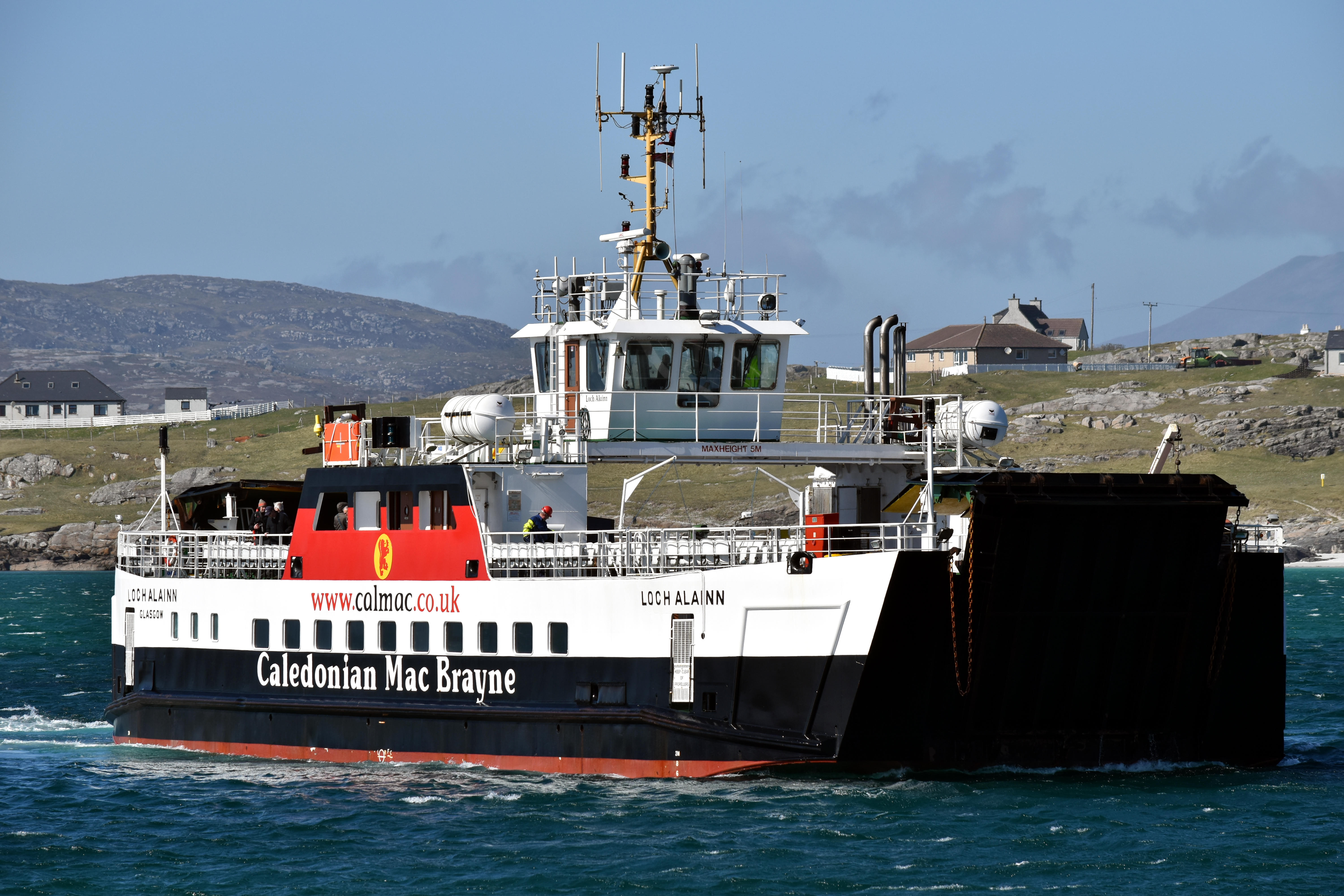 The CalMac ferry MV Loch Alainn approaching the slipway at Eriskay after sailing from Ardmhor on the isle of Barra, 7 May 2017.